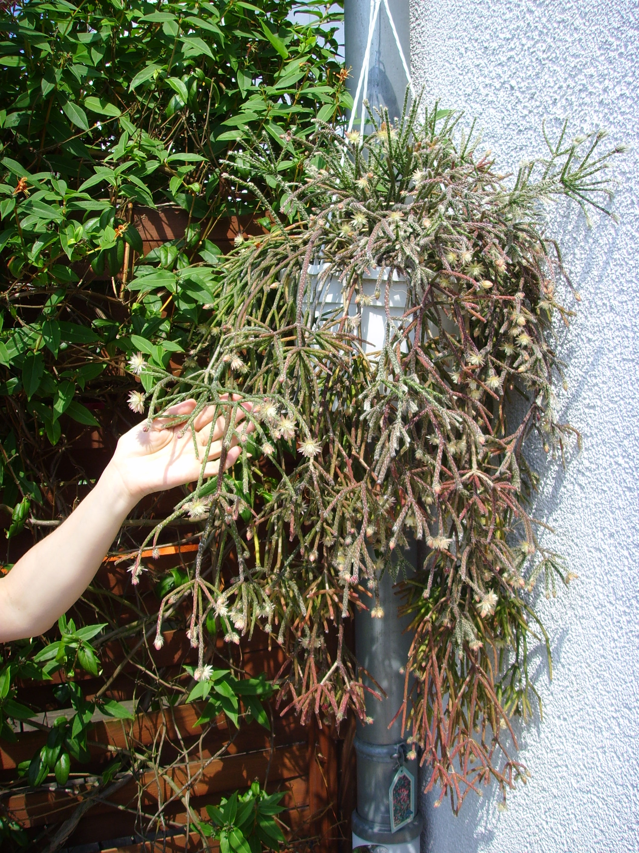 Rhipsalis pilocarpa (Cactaceae), flowering adult plant